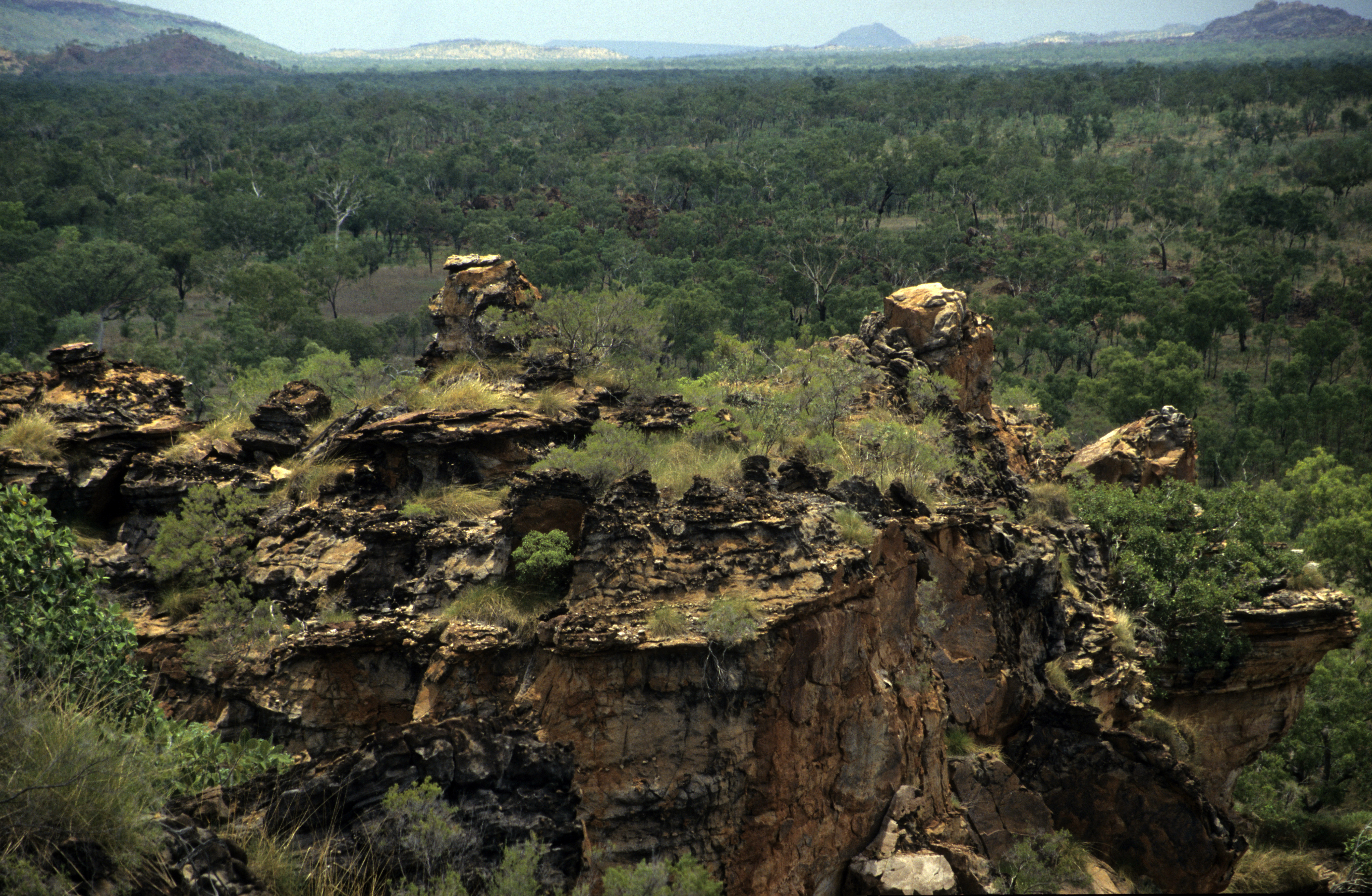 Keep-River-Nationalpark, View from Gurrandalng